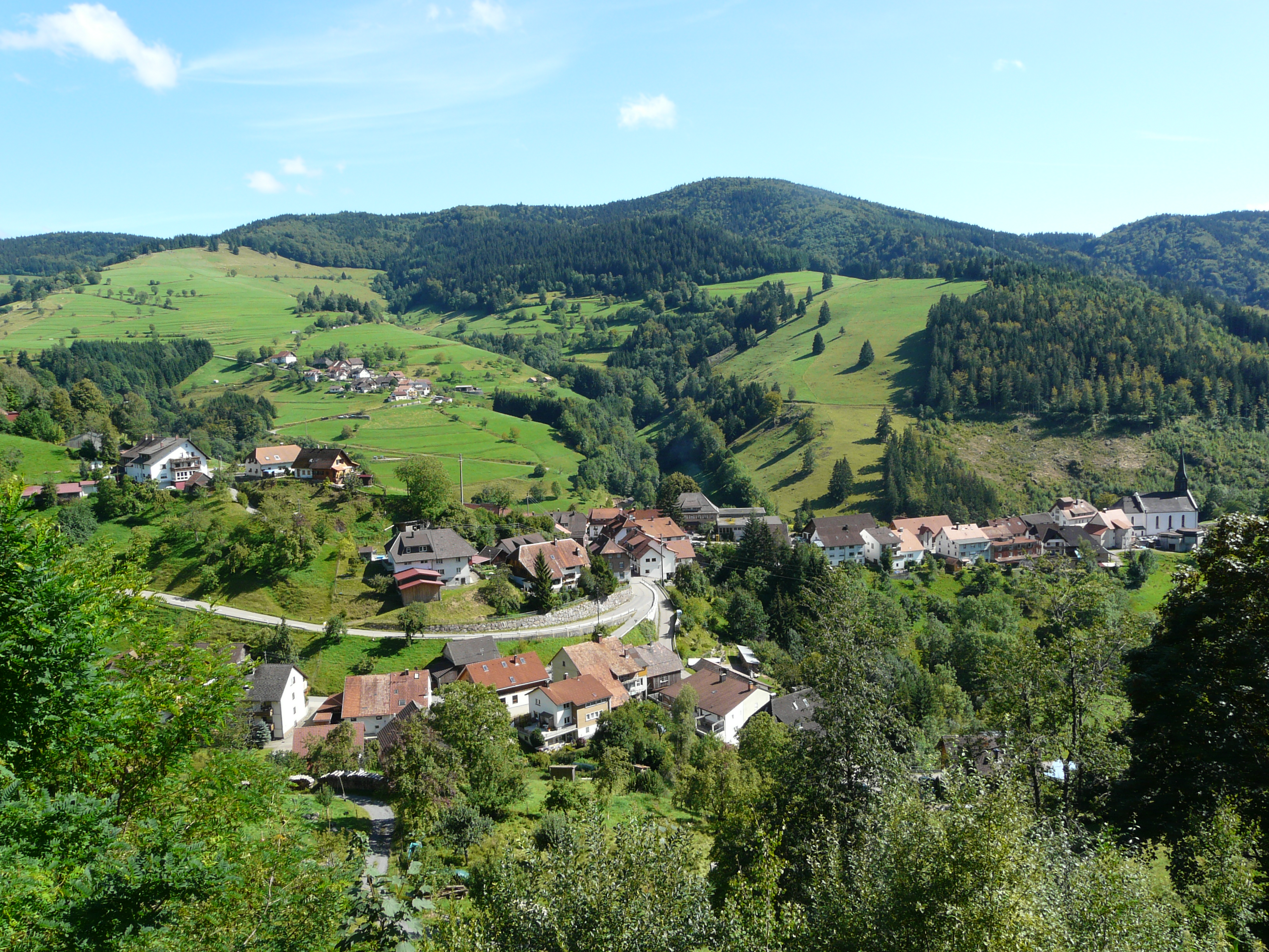 Häg, part of Häg-Ehrsberg, viewed from above